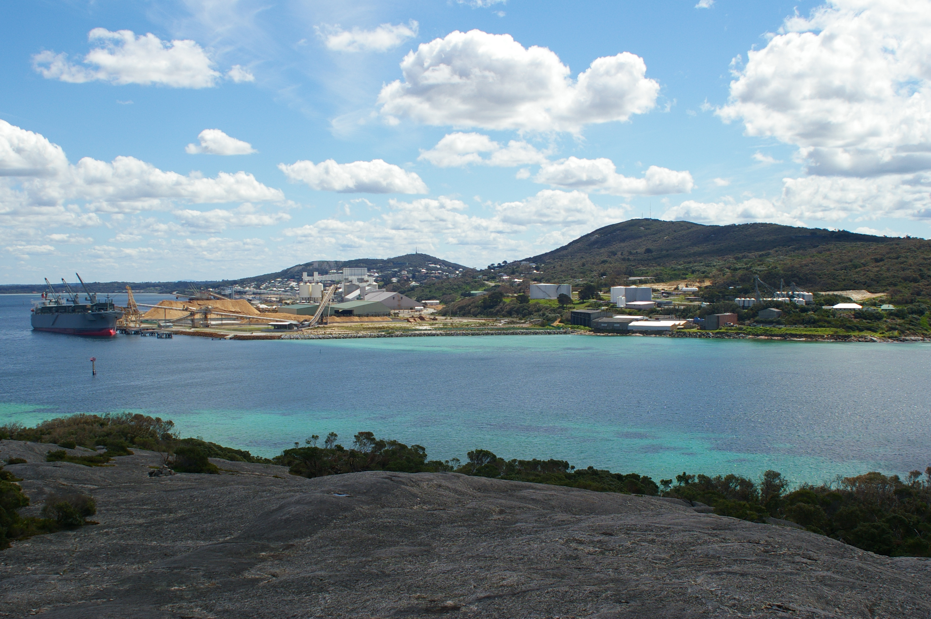 View of Albany Port from Point Possession near Vancouvers Cairn